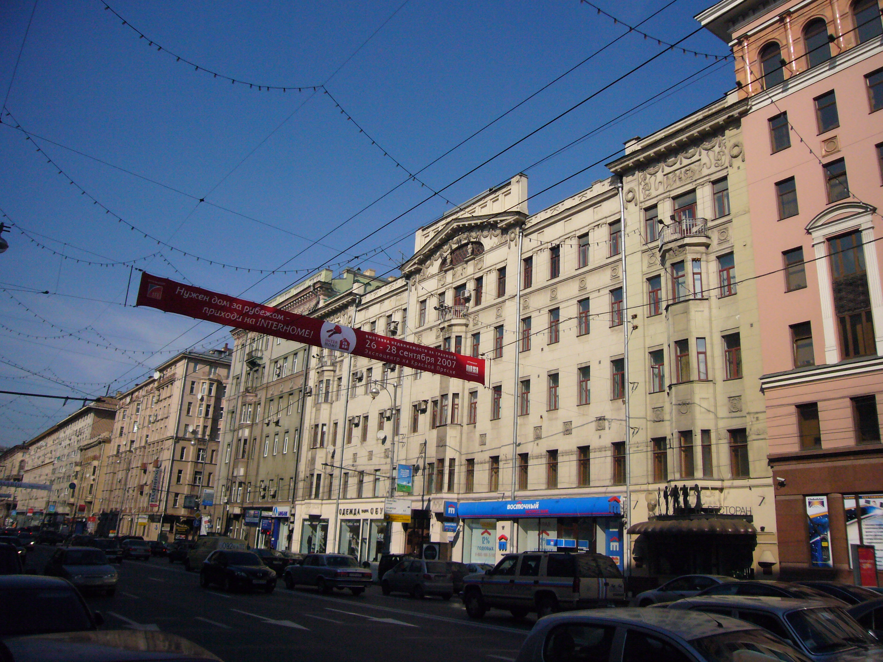 First Tverskaya-Yamskaya Street (buildings from right to left: 14, 16, 18, 20, Moscow, Russia